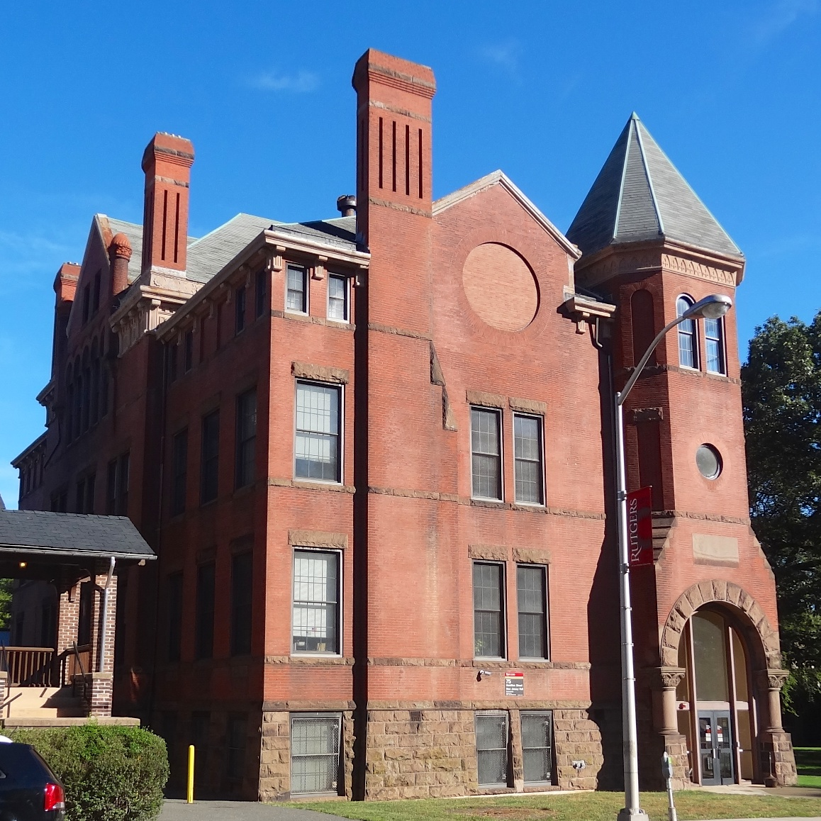 New Jersey Hall, 73 Hamilton St. Rutgers University New Brunswick